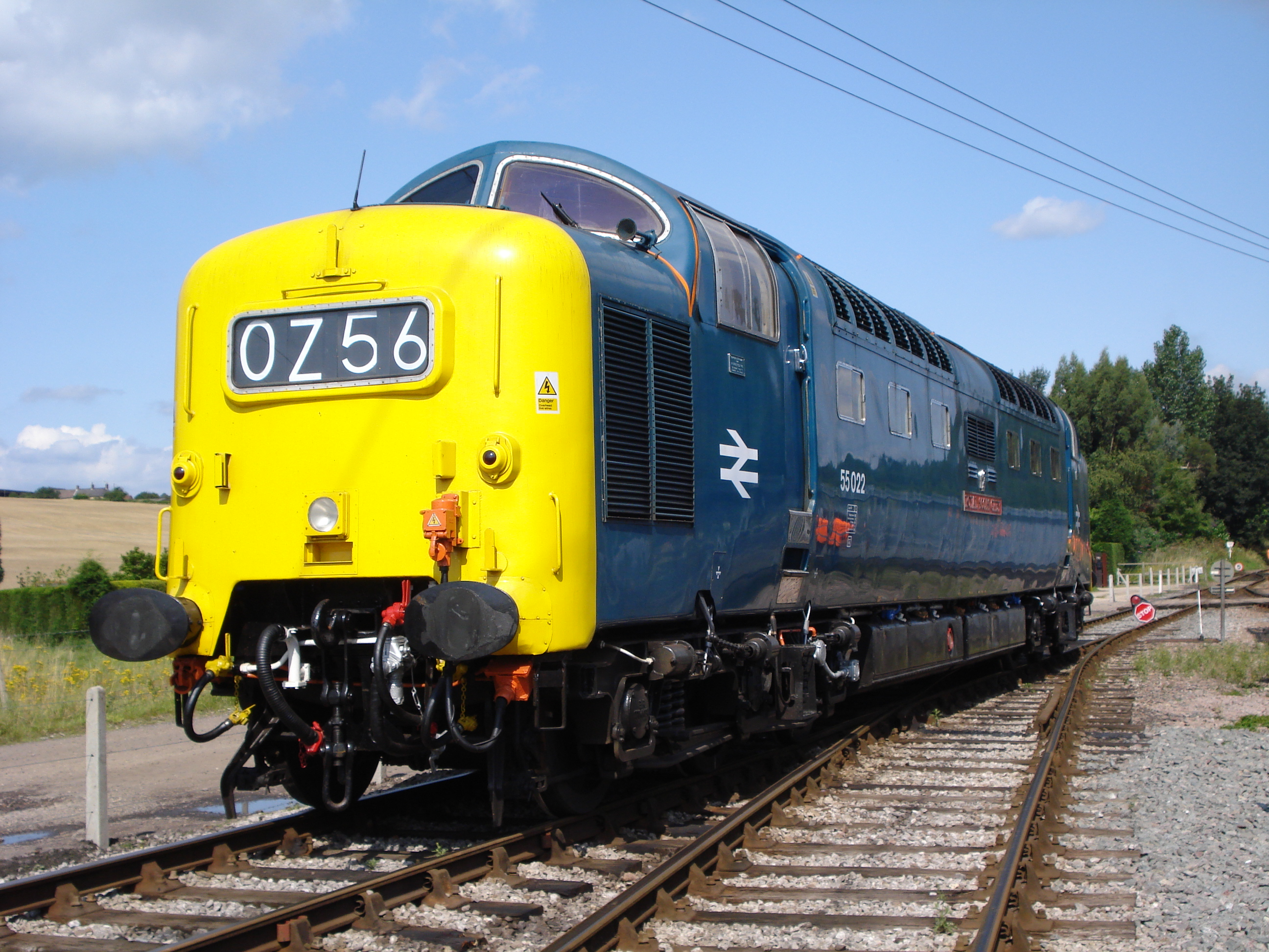 55022 Royal Scots Grey at Barrow Hill Roundhouse attending Type 5 and Twin Engine Gala